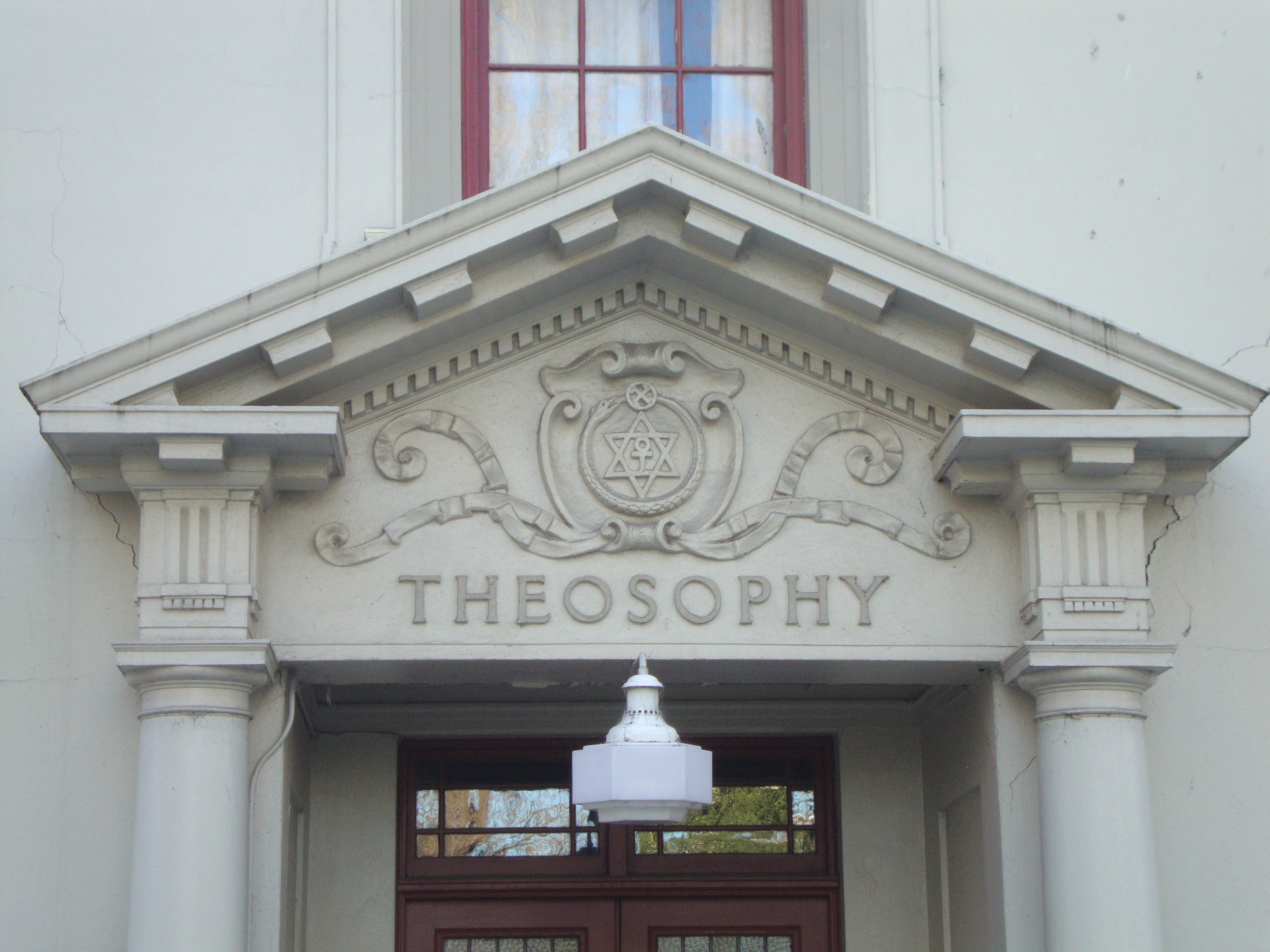 Theosophical Society Building in Christchurch - entrance detail.